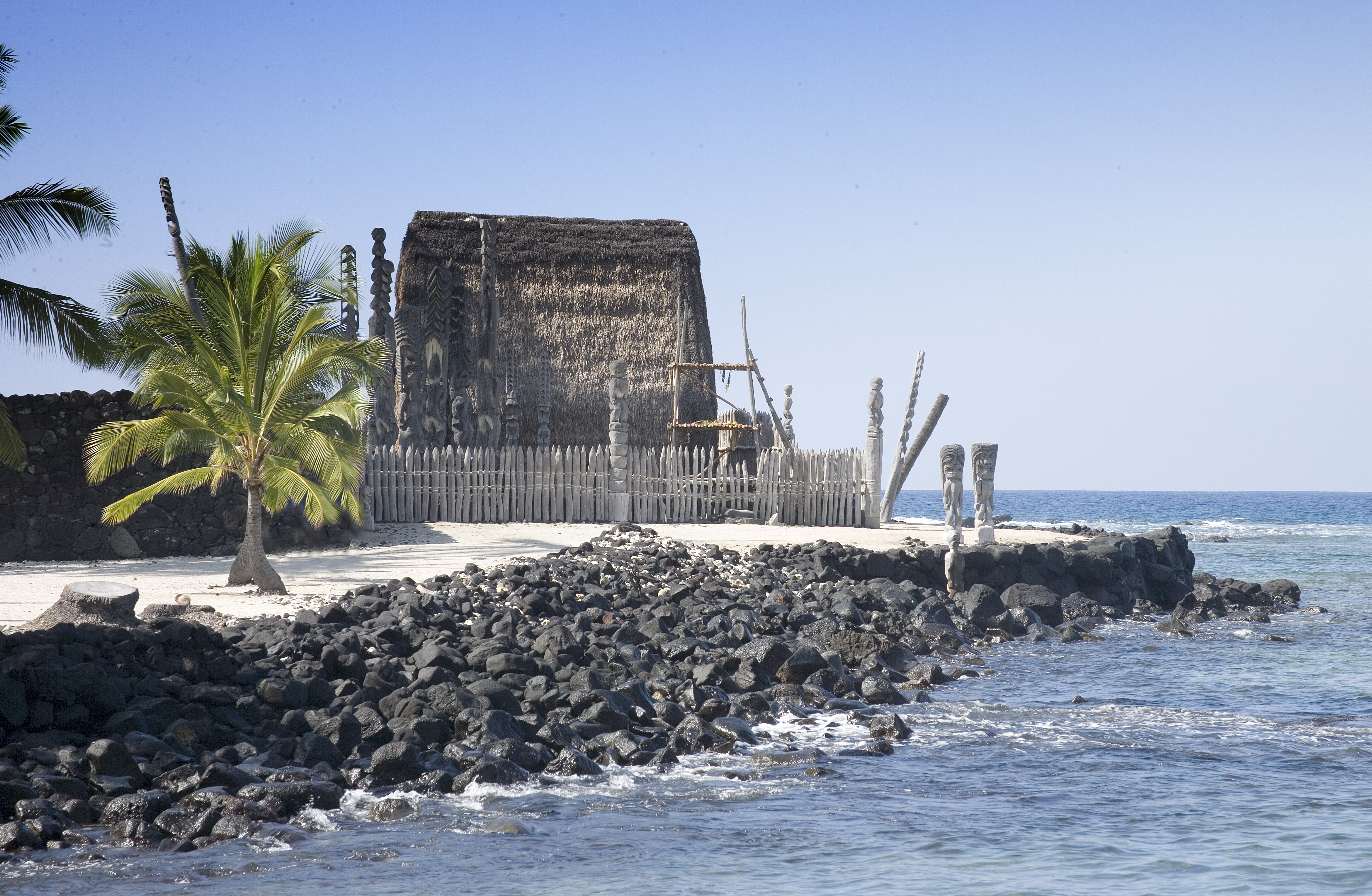 Puʻuhonua o Hōnaunau National Historical Park, Kona, Hawaii Island, Hawaii from Carol M. Highsmith's America project for the Library of Congress